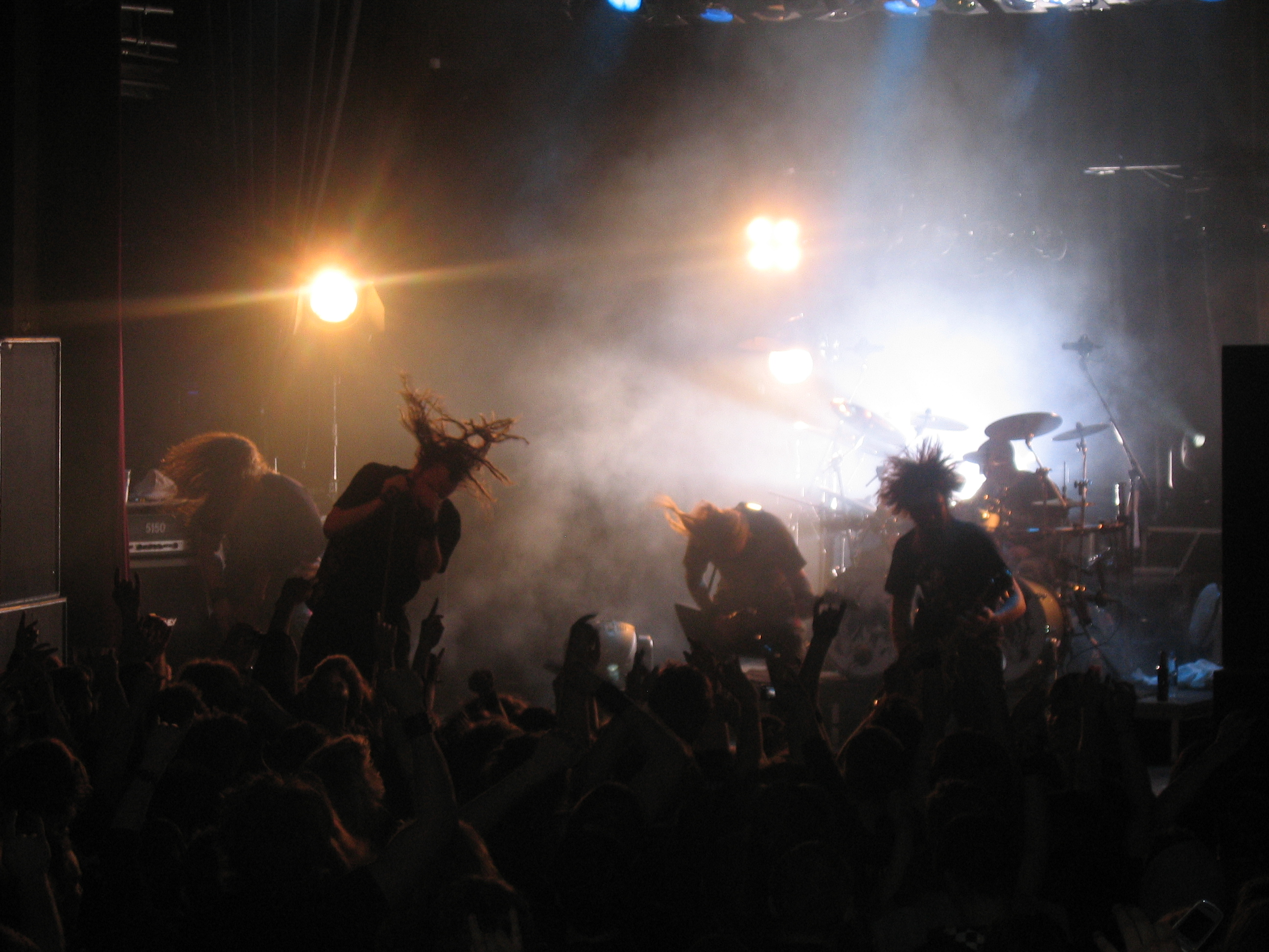 The swedish melodic death metal band In Flames live in concert at Studentersamfundet, Trondheim, Norway.